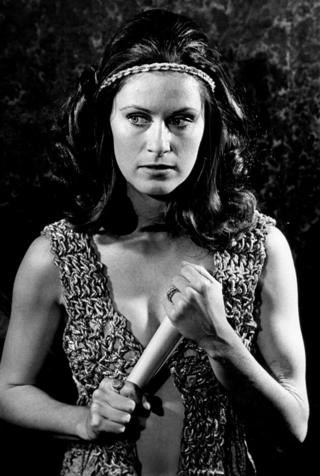 Photo of Susan Clark as Lady Macbeth. In 1972, Clark was a guest artist of the Seattle Repertory Theatre, where she performed in this role.